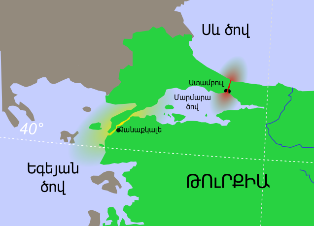 Map of European Turkey